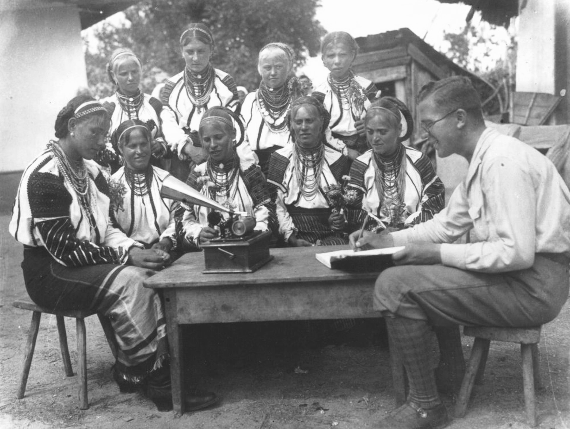 Domokos, Peter Pal (1901-1992) teacher, historian, ethnographer.